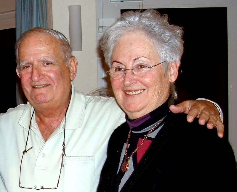 Ilan and Esther Brunner, founders of the DISRAELIS project.